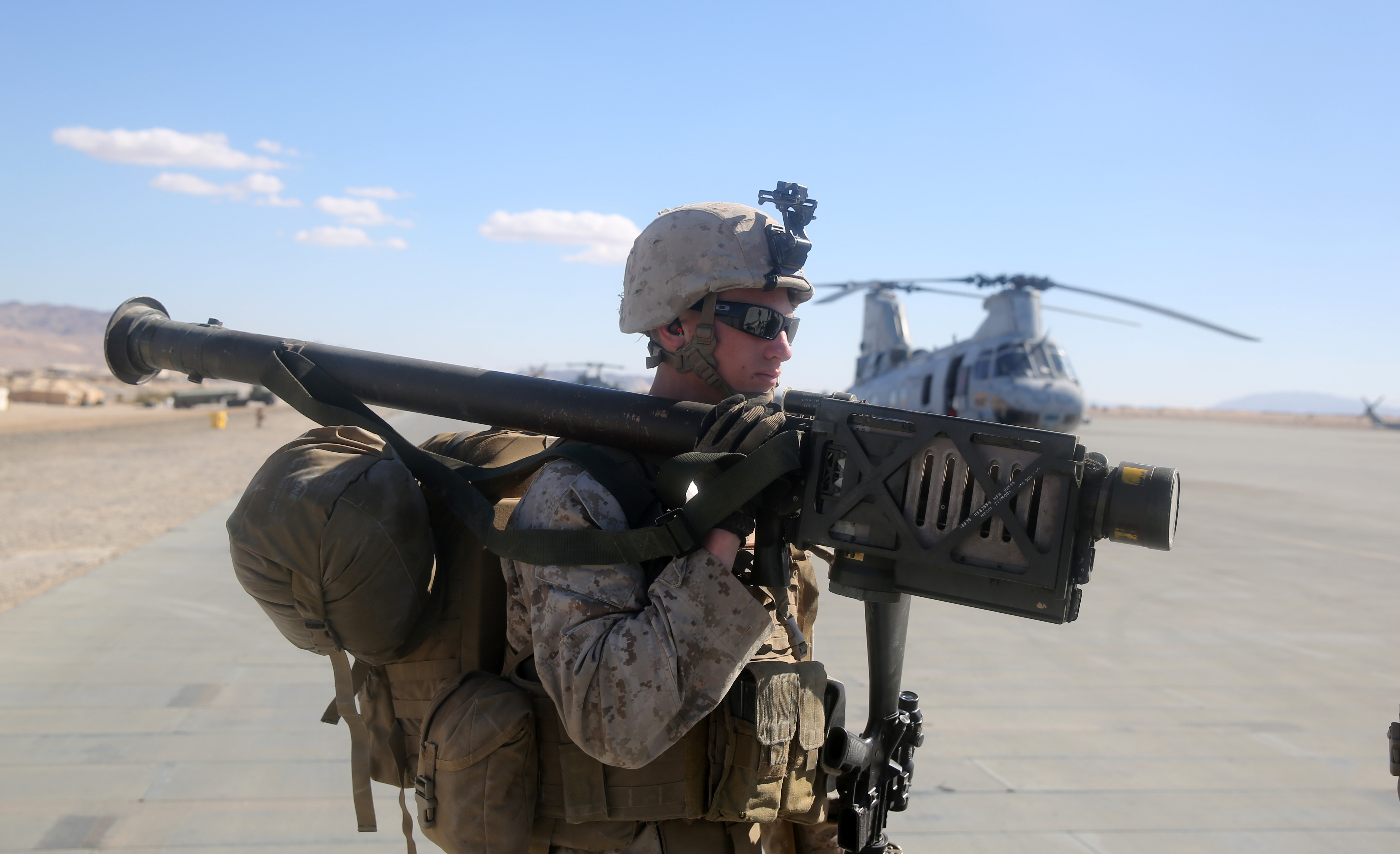 A Marine with 3rd Low Altitude Air Defense Battalion carries a stinger weapon system before loading onto a CH-46 Sea Knight helicopter at Marine Corps Air Ground Combat Center Twentynine Palms, Calif., Feb. 3, 2014. Marines were inserted two kilometers from Lava Training Area where they had to fire and maneuver across rough terrain to an objective and set up defensive positions. After defending the area for 36 hours, the infantrymen repelled an enemy night attack and executed a counterattack across five kilometers to conclude the three-day training exercise. (U.S. Marine Corps photo by Cpl. Joseph Scanlan / released)